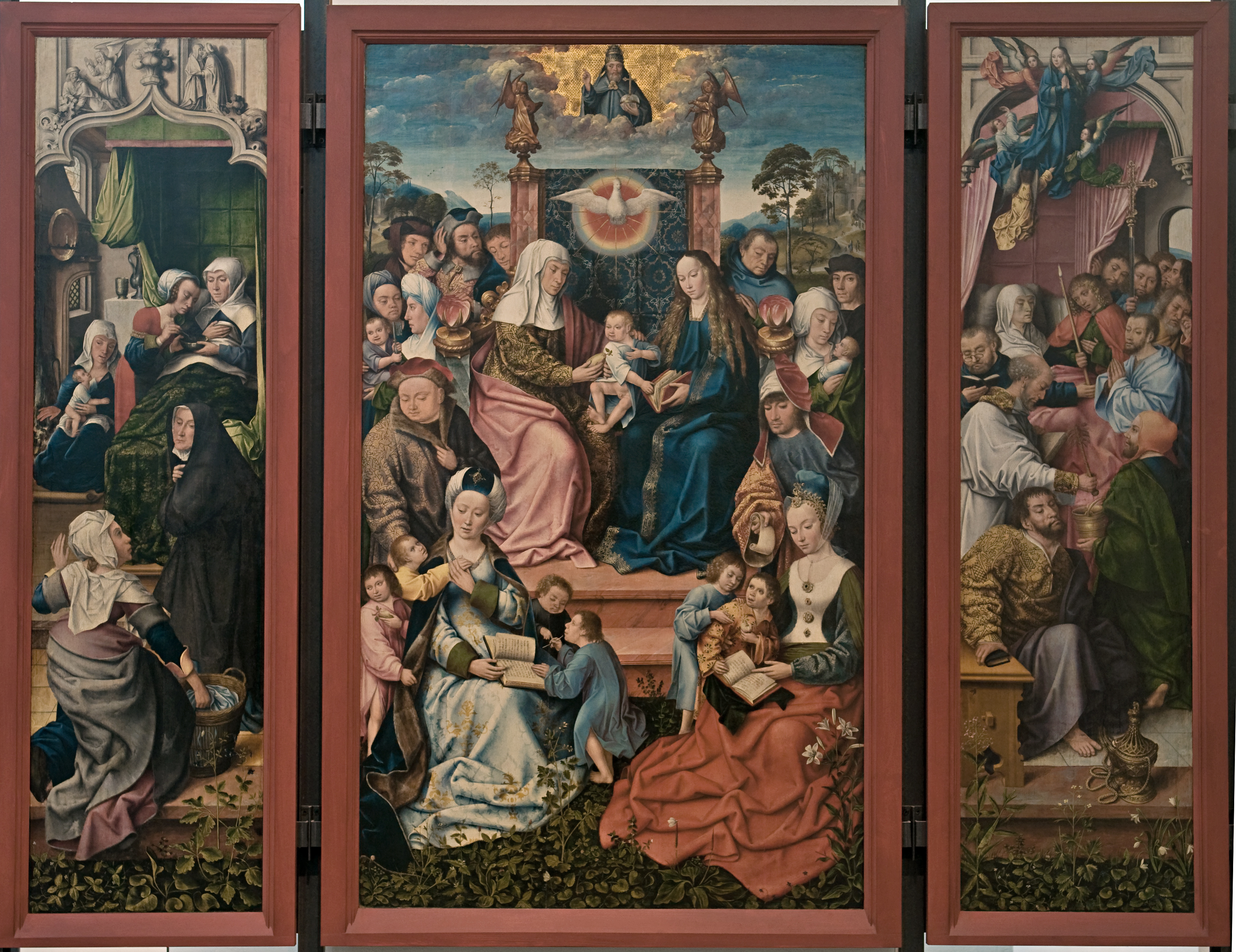 Inside of the opened altar